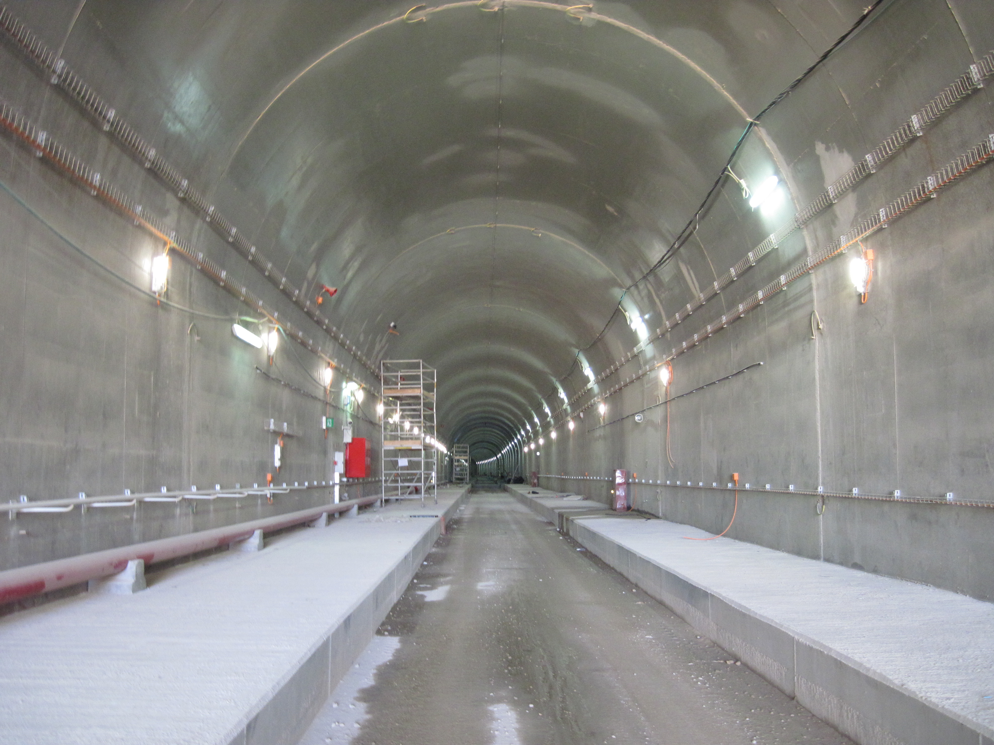 Gilon Tunnels - southern tunnel